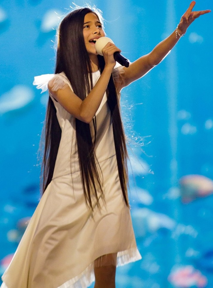 Melani García during her performance of "Marte" at Junior Eurovision Song Contest 2019